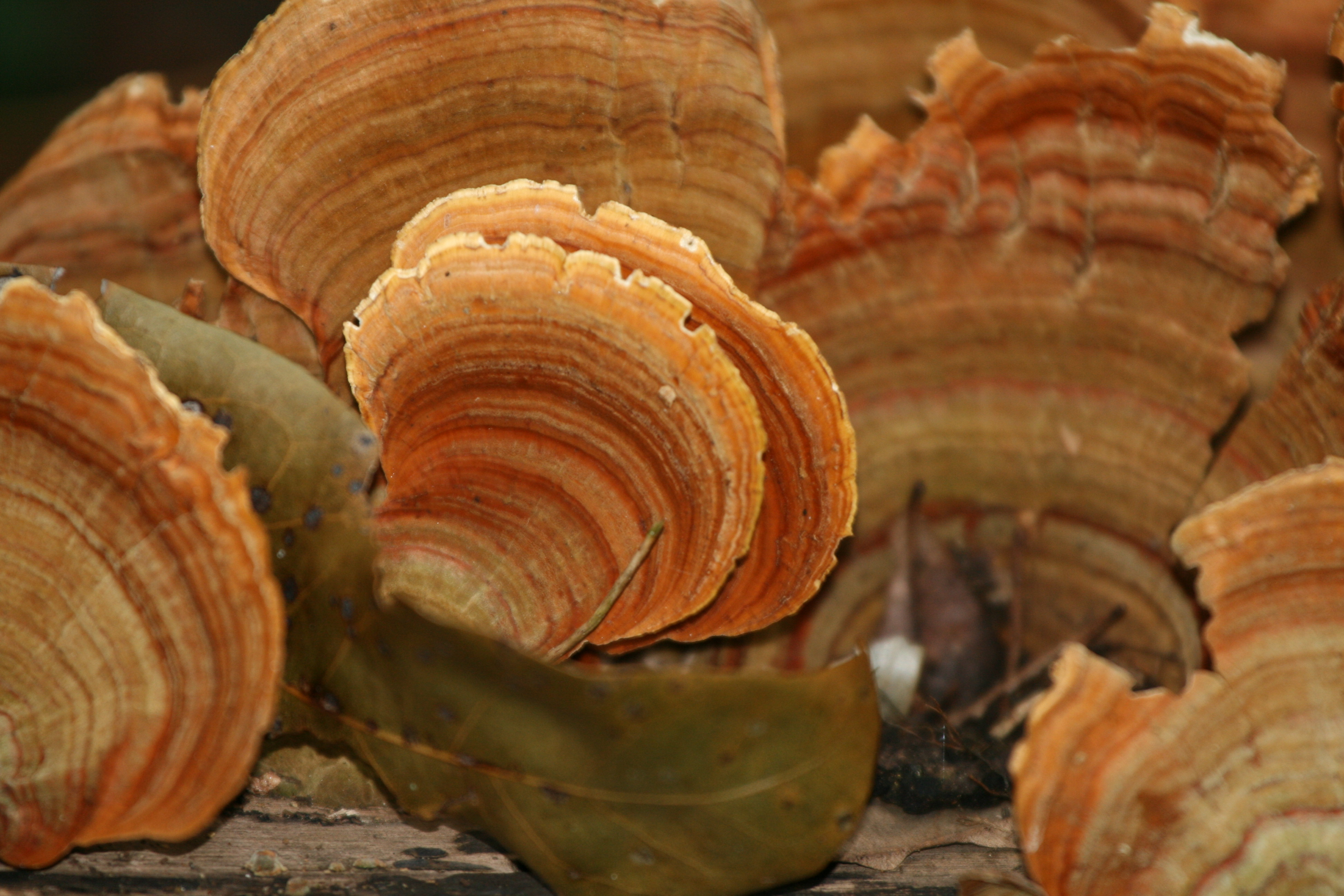 Stereum ostrea (False Turkey-tail Fungus).